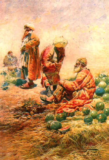 Bukharians selling watermelons